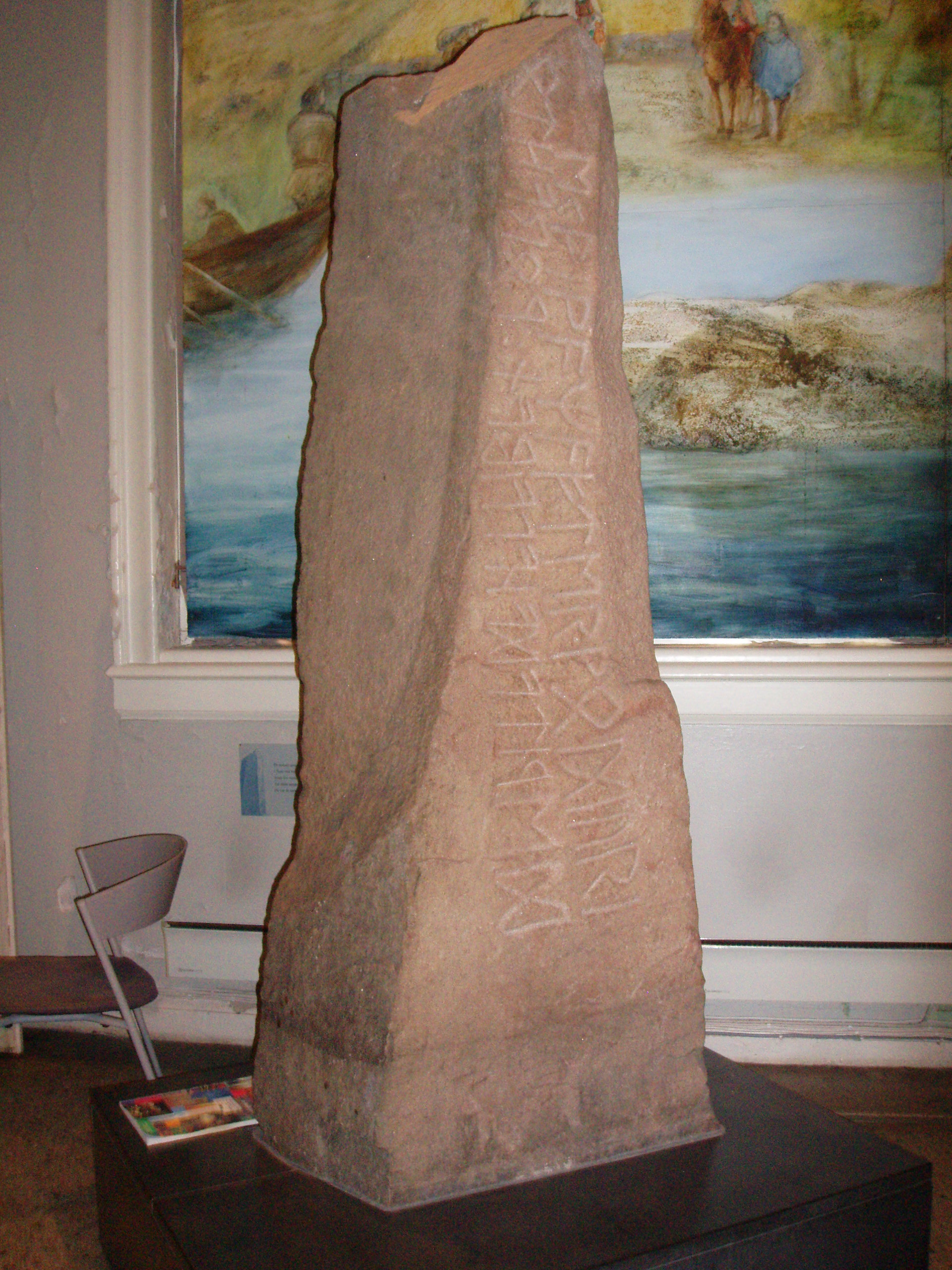 One side of the Tune runestone, as displayed in the Museum of Cultural History in Oslo, Norway. According to the object display the stone was raised by Sarpsfossen (a waterfall) around the year 400 CE.